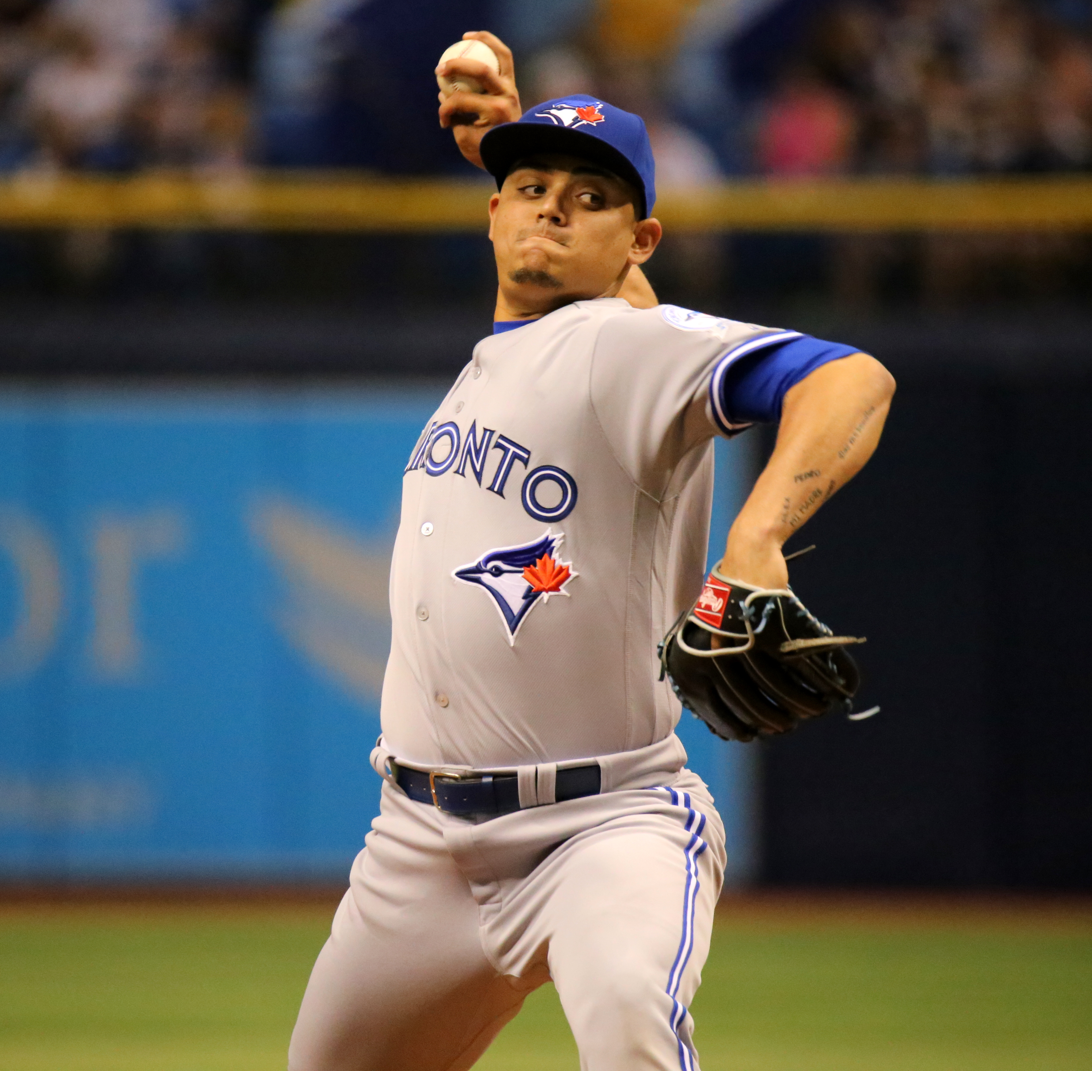 Roberto Osuna pitching against the Tampa Bay Rays on 2016 Opening Day